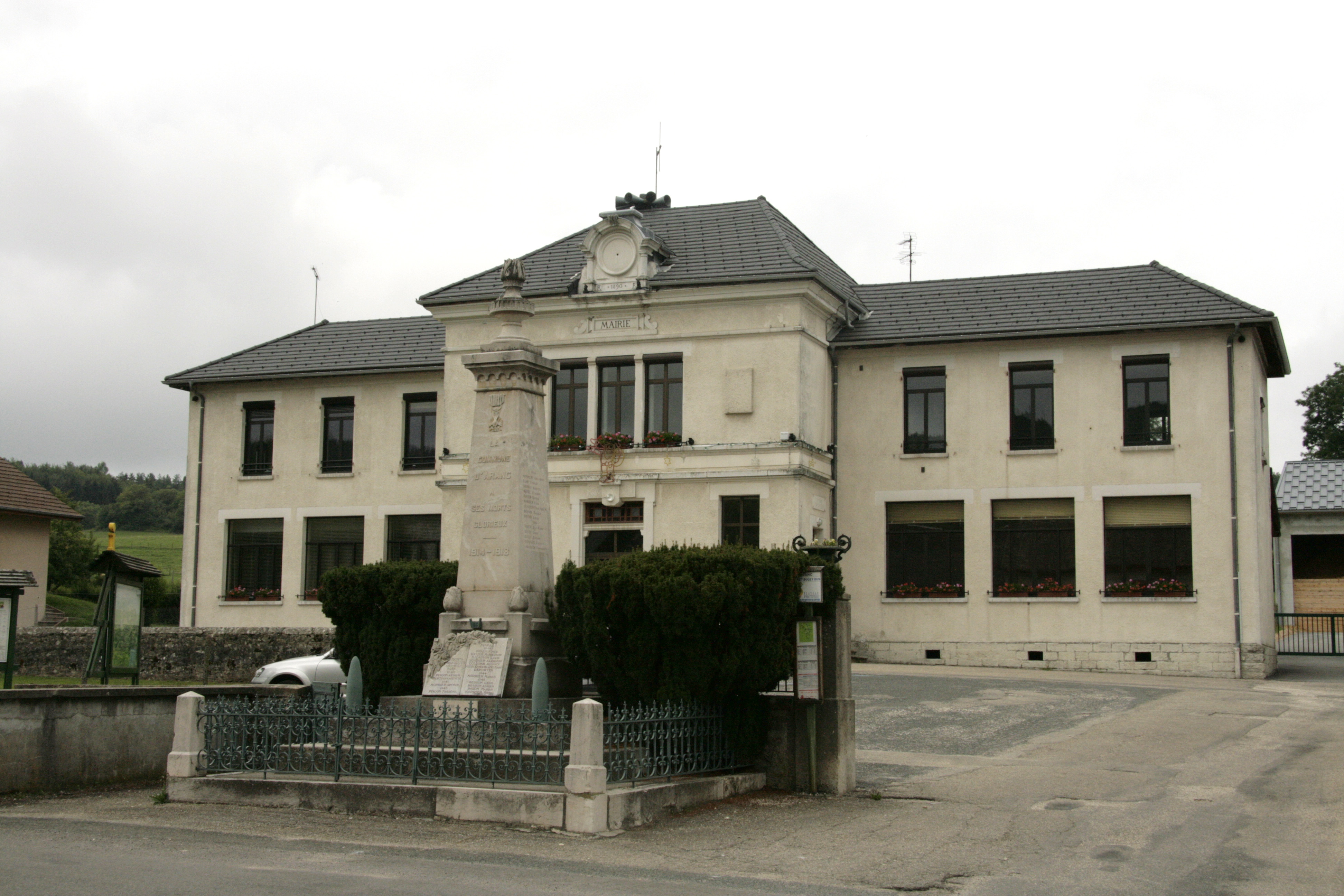 Mairie d'Aranc, Bugey, Ain